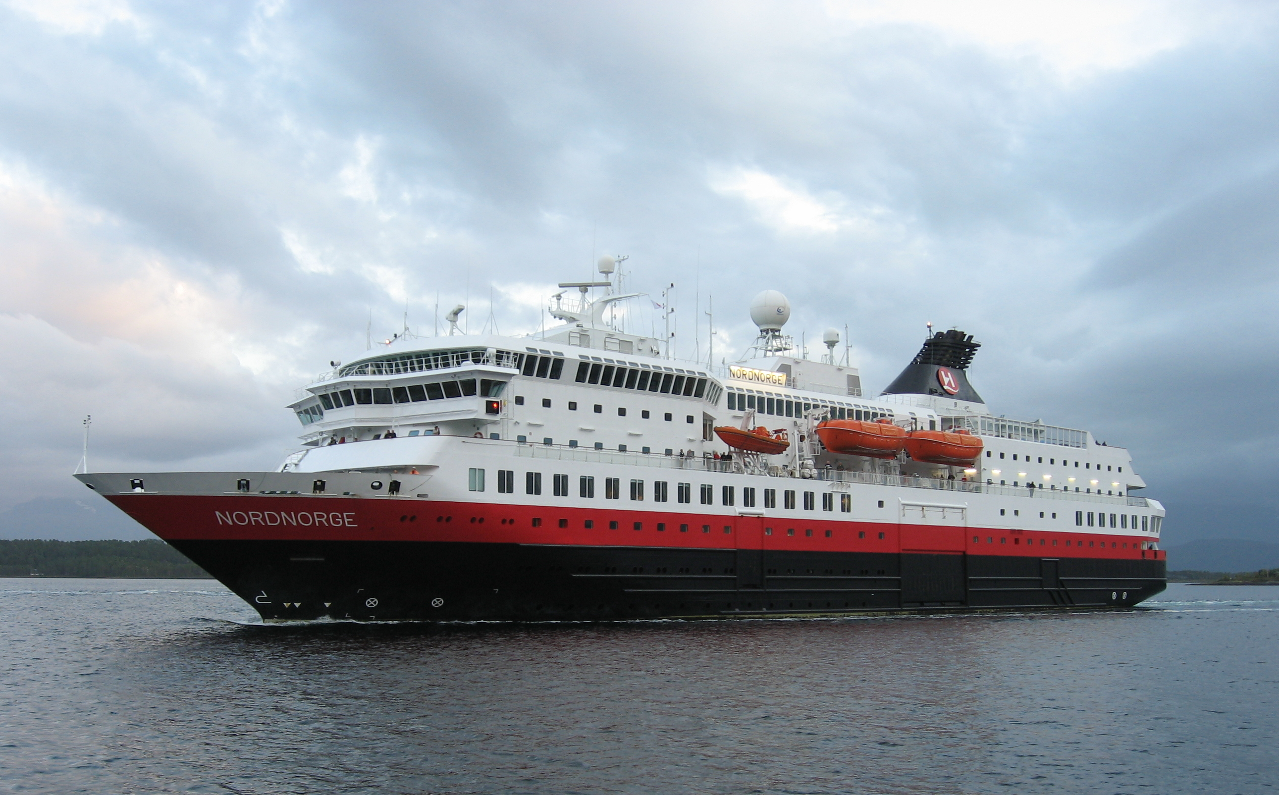 Norwegian coastal express ship MS Nordnorge approaching Molde harbour